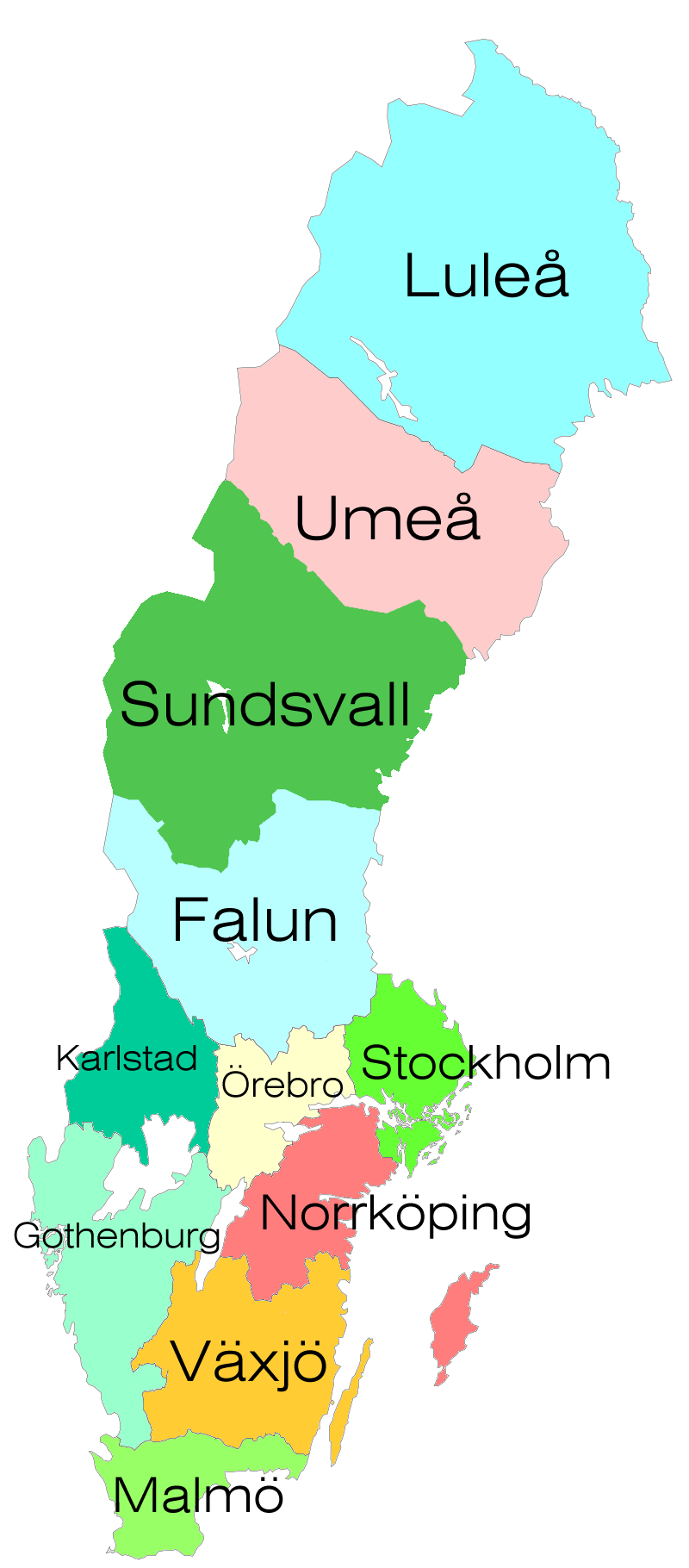 Cities in which juries at the Melodifestivalen final are based, and the districts they represent.